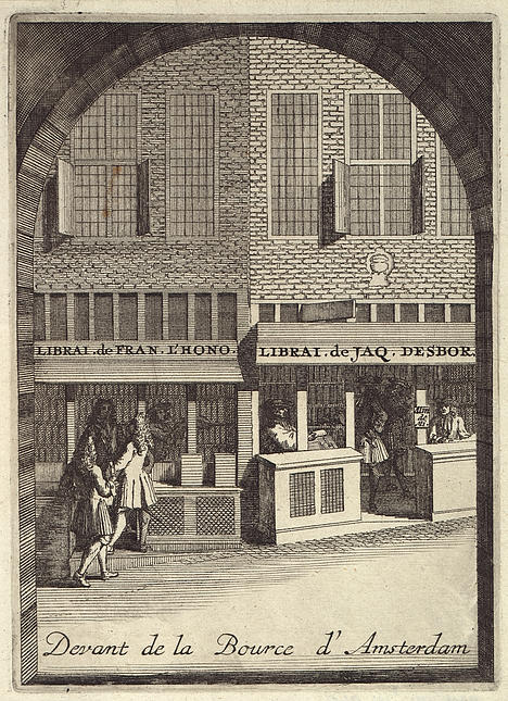 Engraving of a Huguenot bookstore in Amsterdam, 1715.